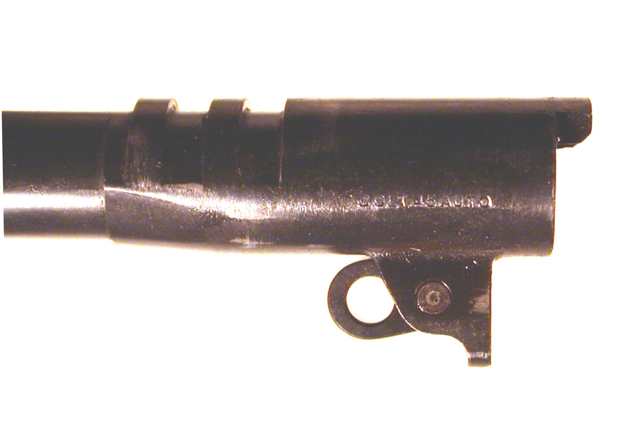 Rear end of barrel Colt M1911A1